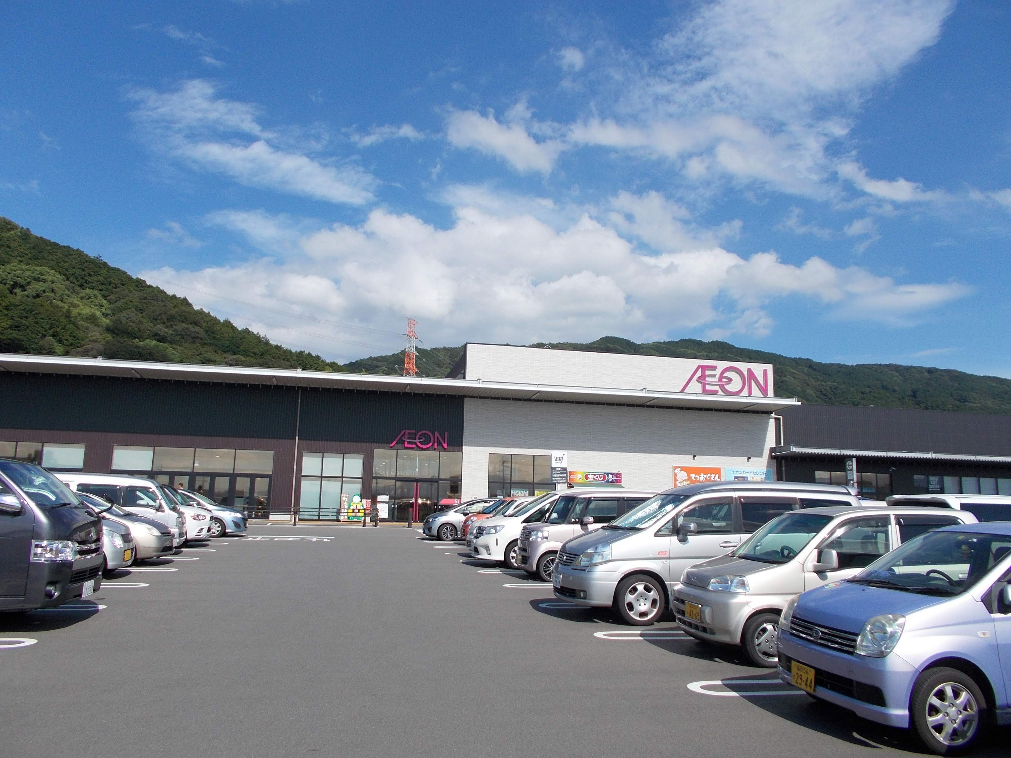 The South Area of AEON Otogana Shopping Center, Onojo, Fukuoka, Japan